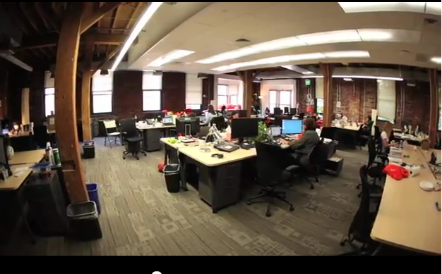 HubSpot's offices